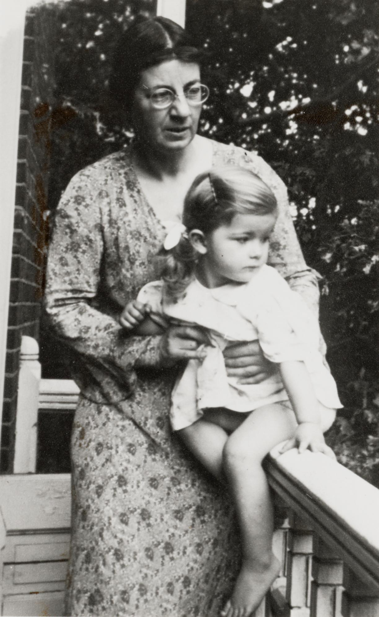 Dutch writer Mea Verwey with one of her daughters, probably around 1940